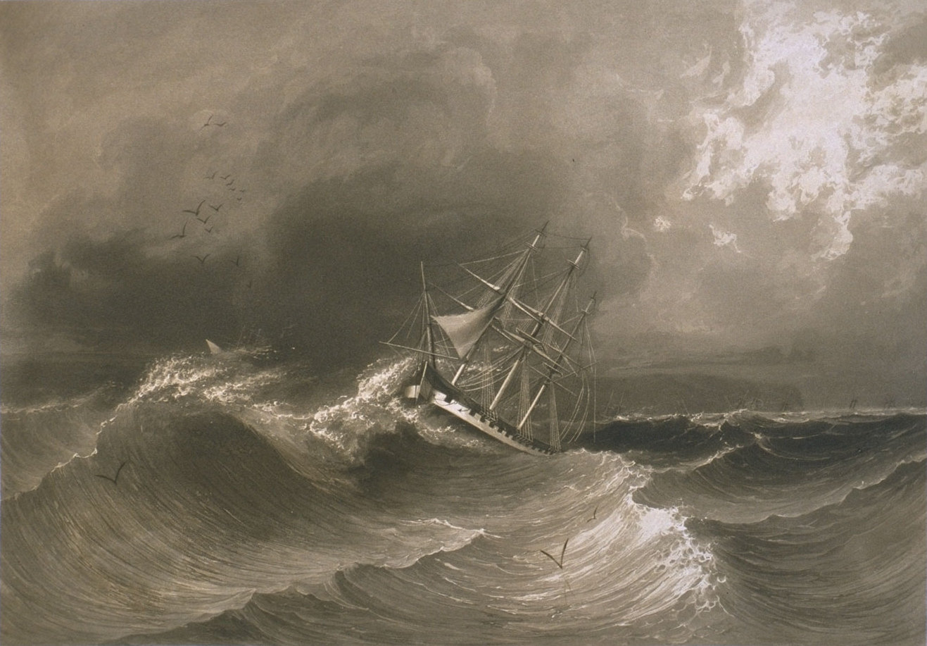 La Favorite: under sail for Bourbon [Réunion Island] at the approach of the second hurricane from Voyage Autour du Monde par les Mers de l’Inde et de Chine. . Paris: Imprimerie Royale, 1833-39. The events of the voyage occurred between 1830 and 1832.